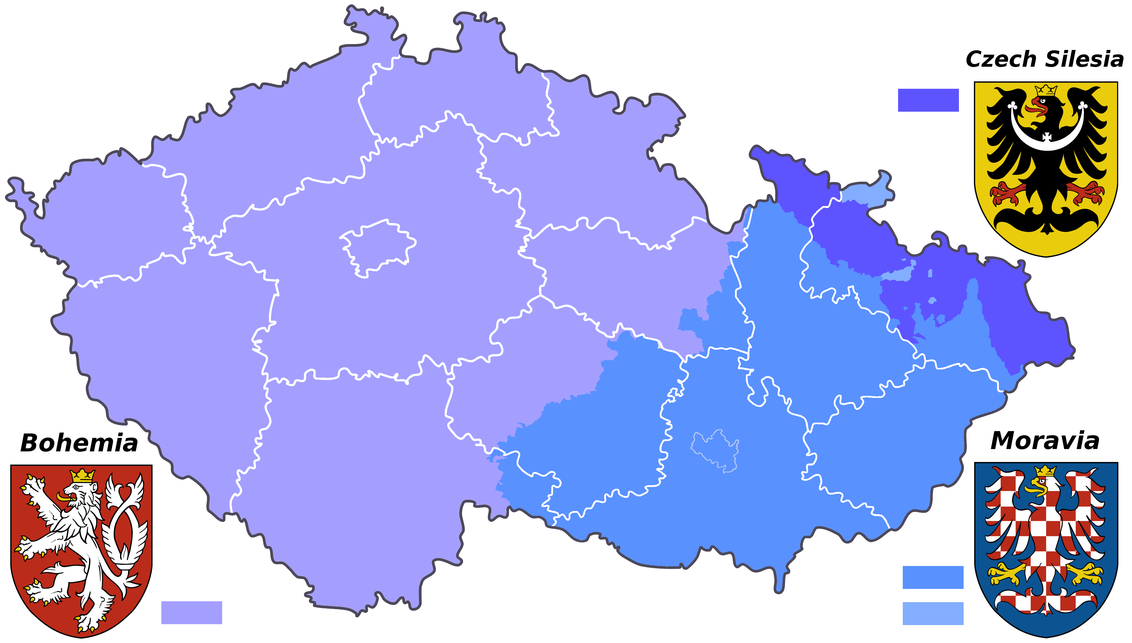 Map of Czech republic showing borders of historical lands and current administrative regions.